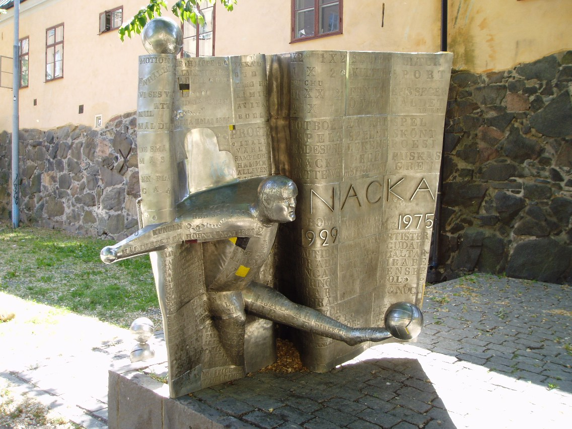 Statue in honour of Lennart Skoglund (Swedish soccer player) place: Stockholm, Katarina Bangatan